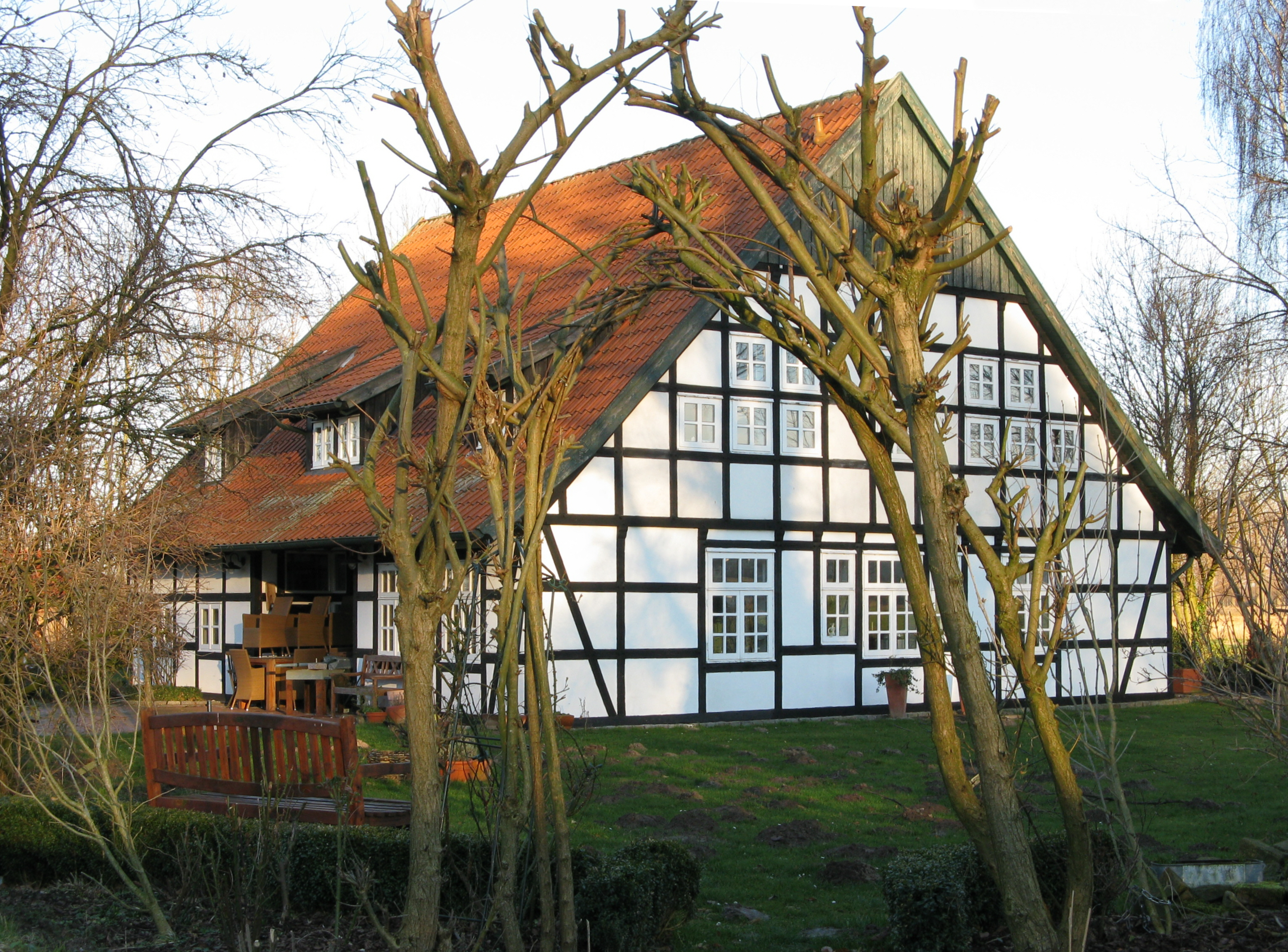 This is a photograph of an architectural monument.It is on the list of cultural monuments of Preußisch Oldendorf